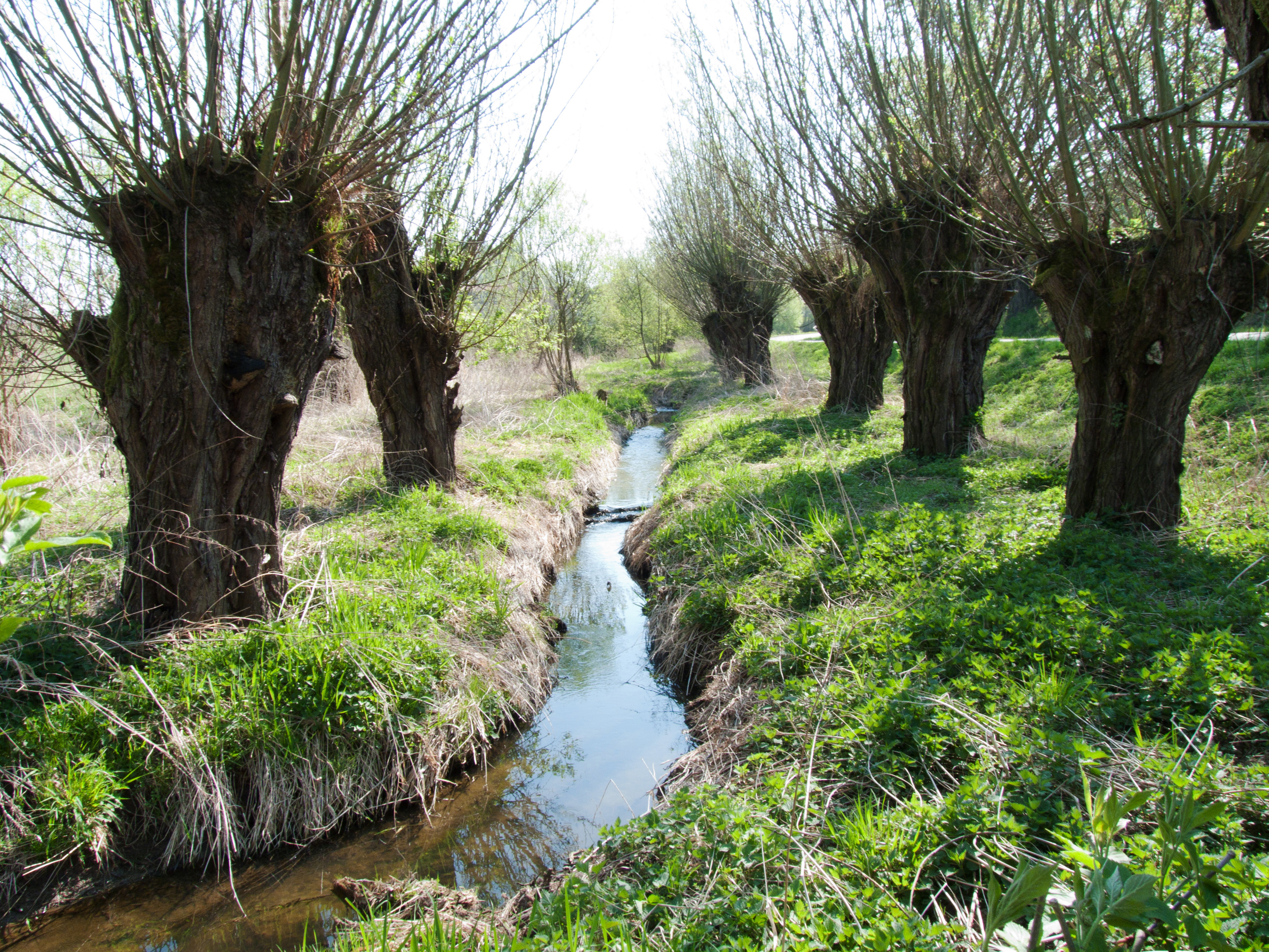 Willows along the Třešovický creek near the village of Třešovice, Strakonice District, Czech Republic.